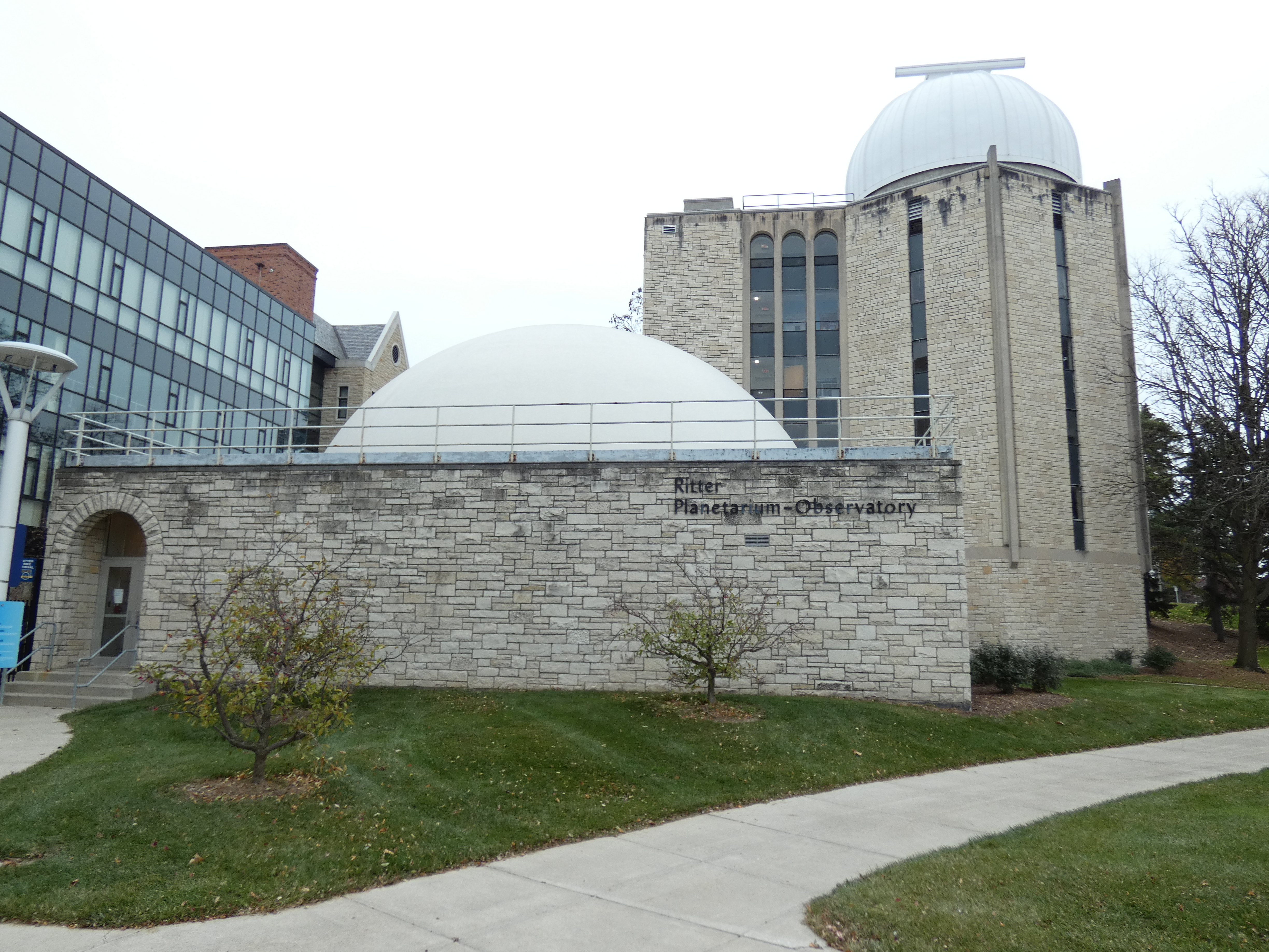 Photo showing the front entrance to the Ritter Planetarium-Observatory located on the northeastern portion of the university's main campus.